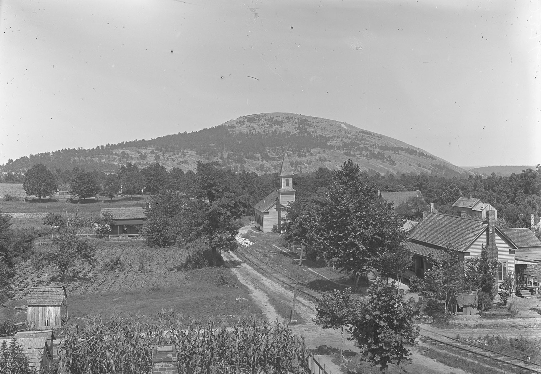 Stone Mountain. 1908. Photo by Huron H. Smith. Location: Stone Mountain, Georgia, U.S.A., North America Original material: 5x7 inch glass negative Digital Identifier: CSB29586 Learn more about The Field Museum's